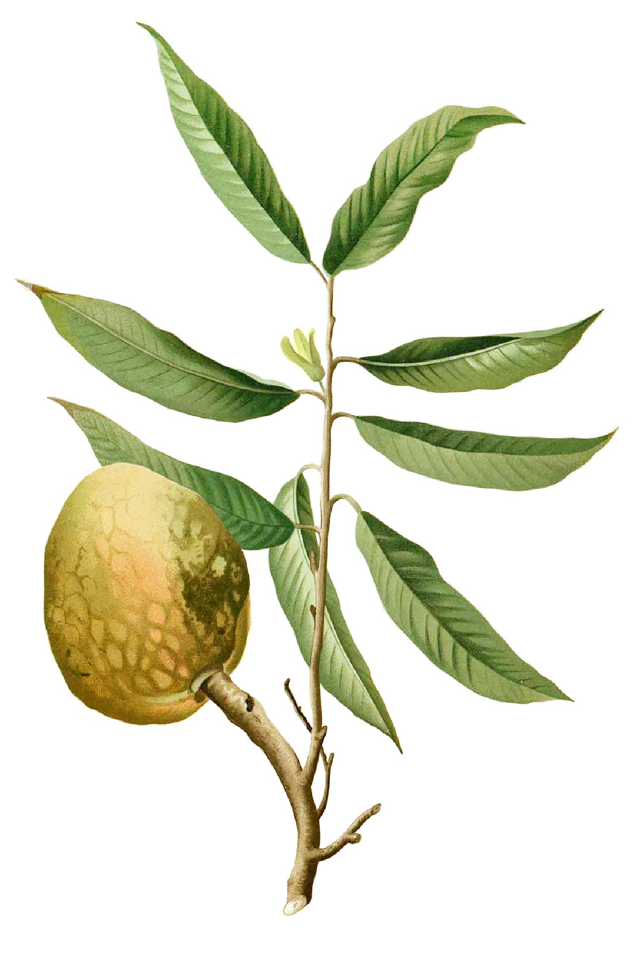 Plate from book